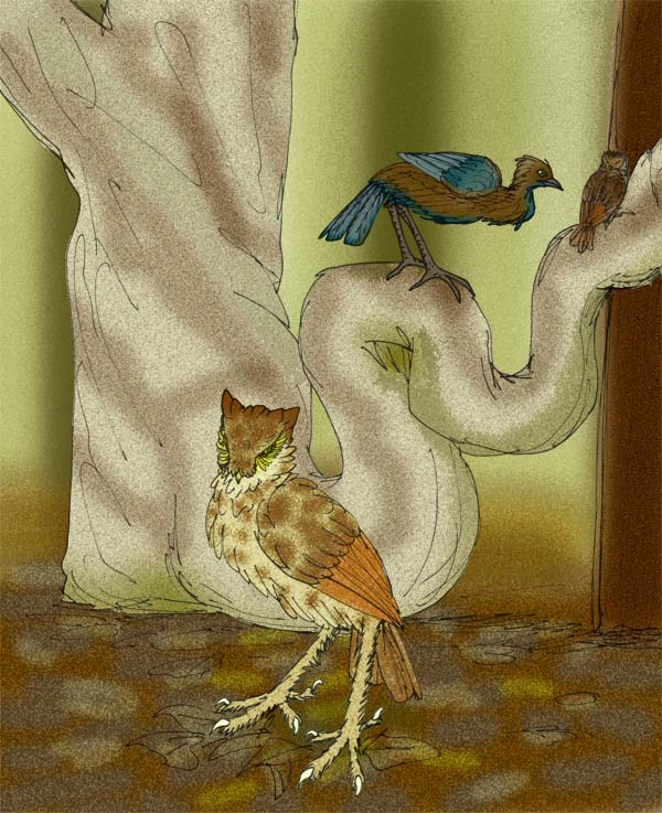 Comparison of the Latest Eocene/Earliest Oligocene birds, Sophiornis quercynus (left), Strigogyps dubius (center), and Necrobyas minimus (right)